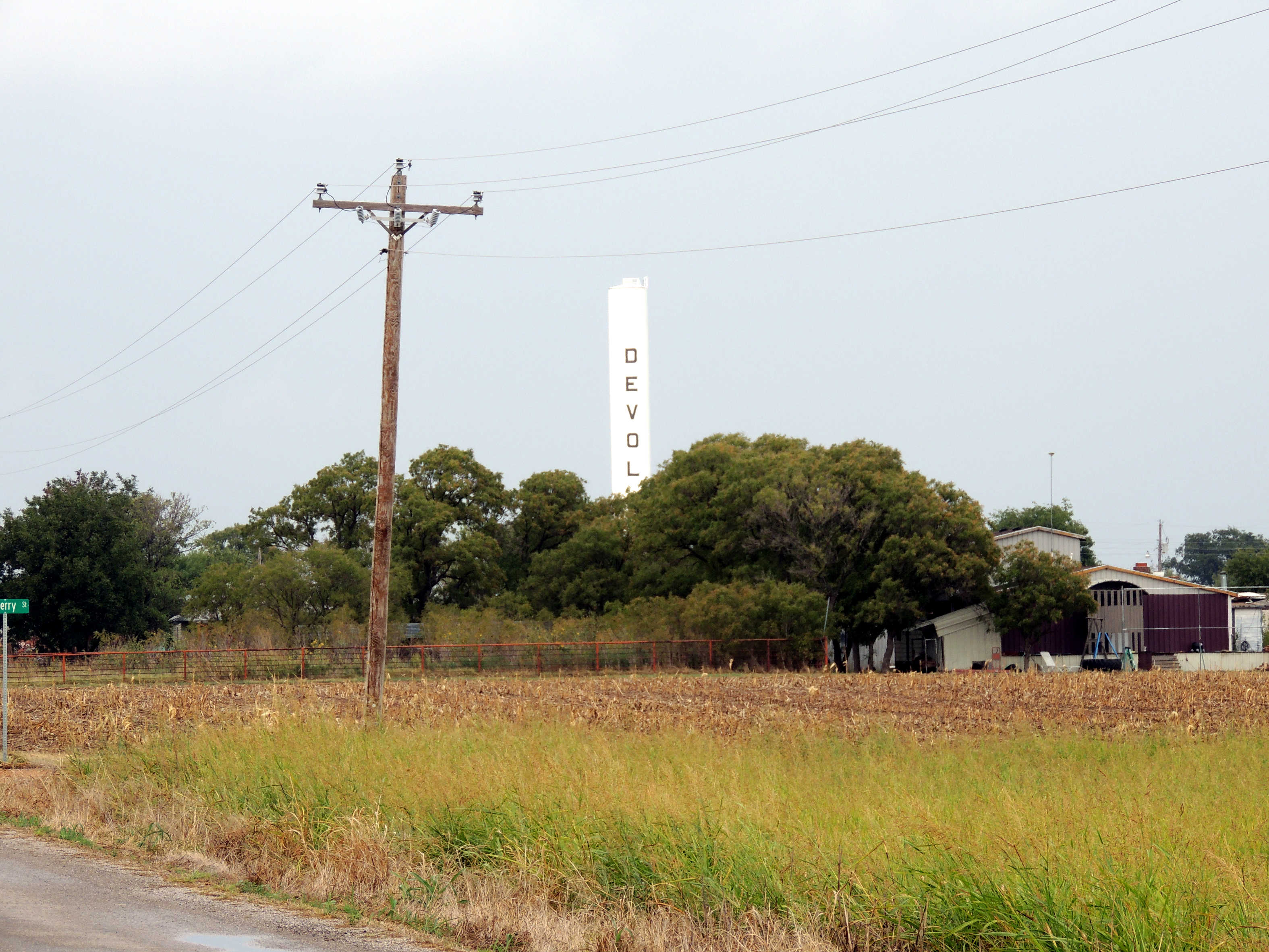 Rural town of Devol, Oklahoma located two and one-half miles from the Red River in the State of Oklahoma southwest quadrant.